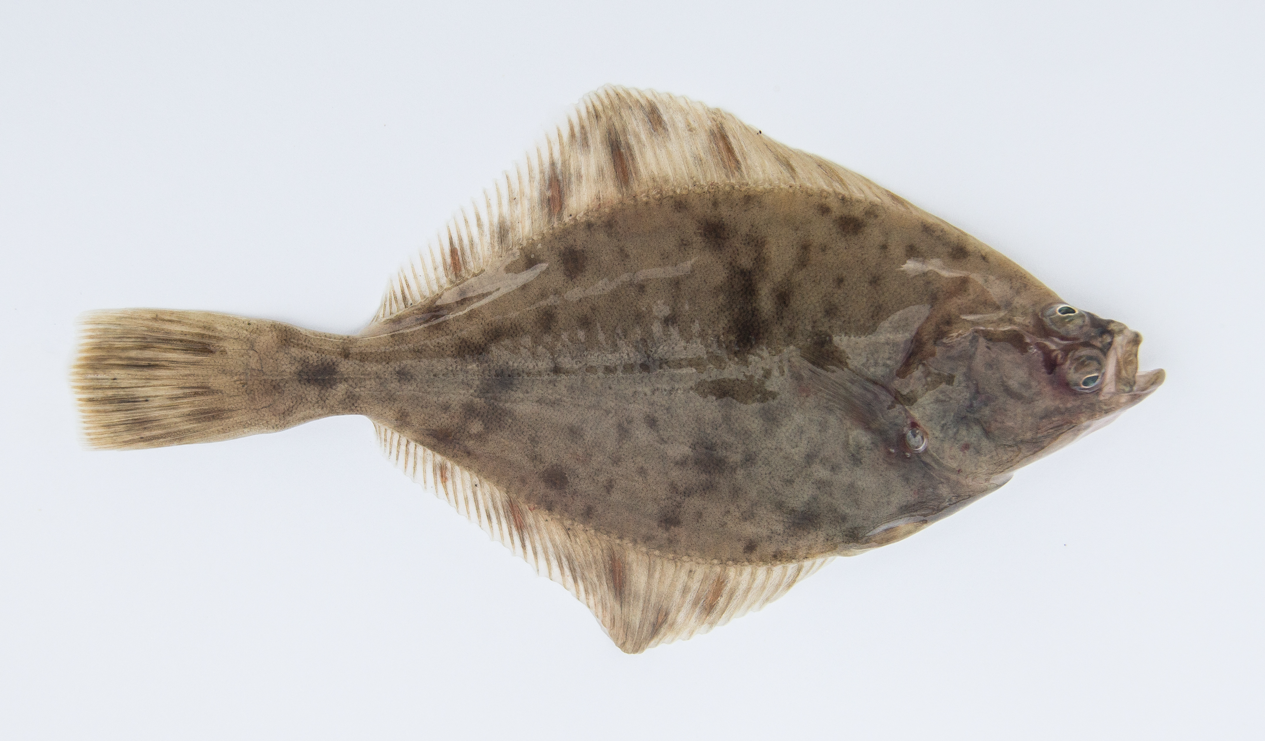 You can eat flounders